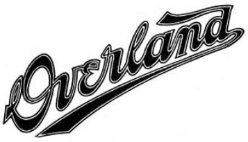 Willys-Overland Company of Toledo, Ohio - logo - 1912